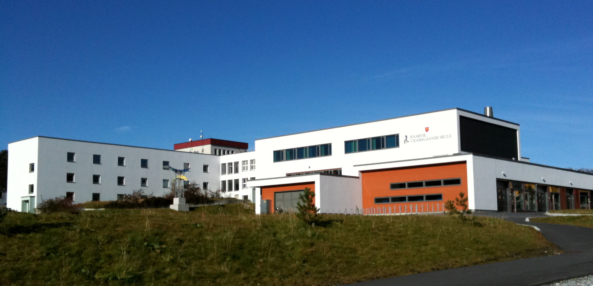 Knarvik videregåande skule, in the municipality of Lindås, Hordaland, Norway